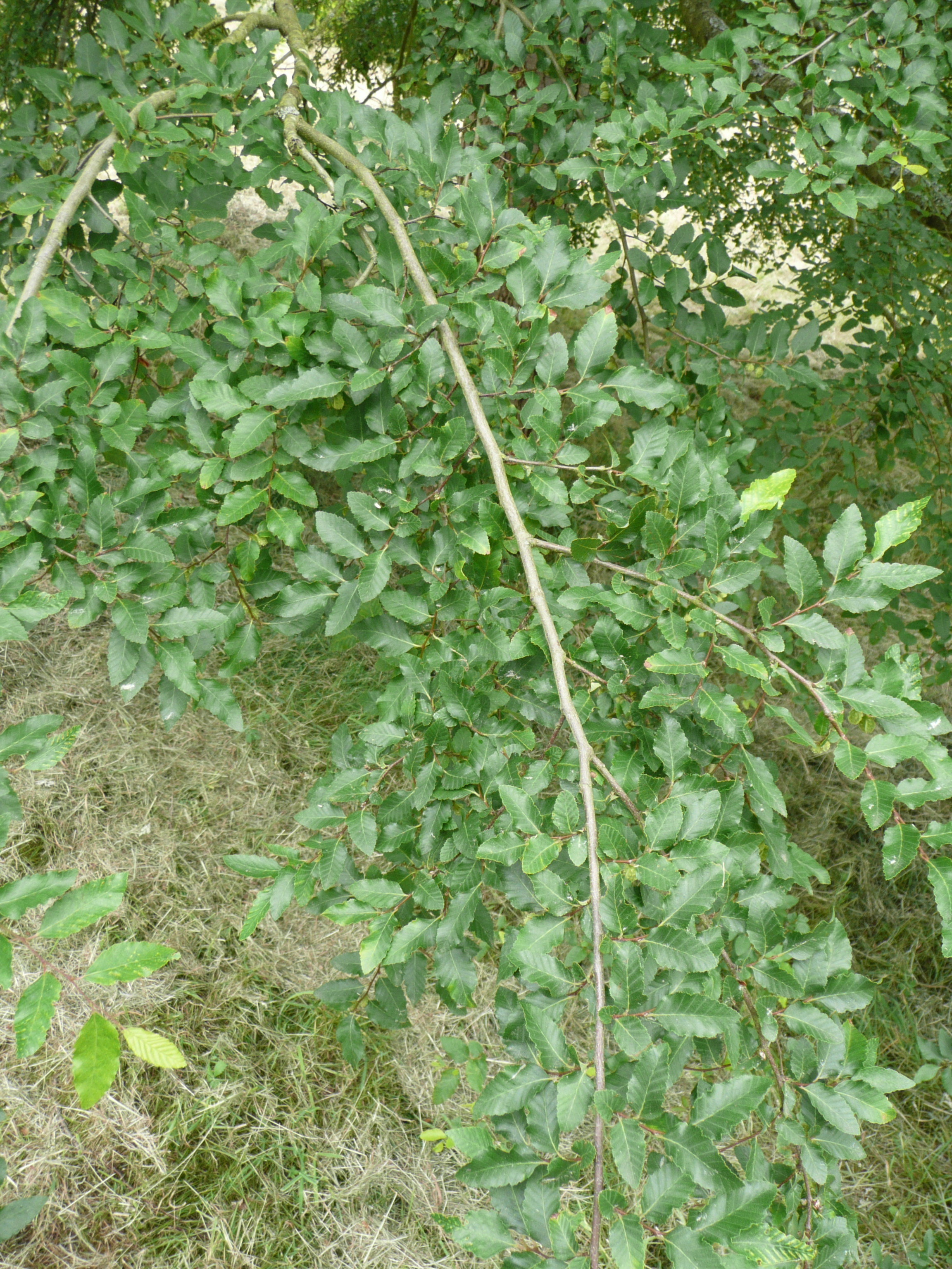 Nothofagus obliqua in the Arboretum de Chèvreloup in Rocquencourt Map: 48° 49' 49" N 2° 06' 42" E